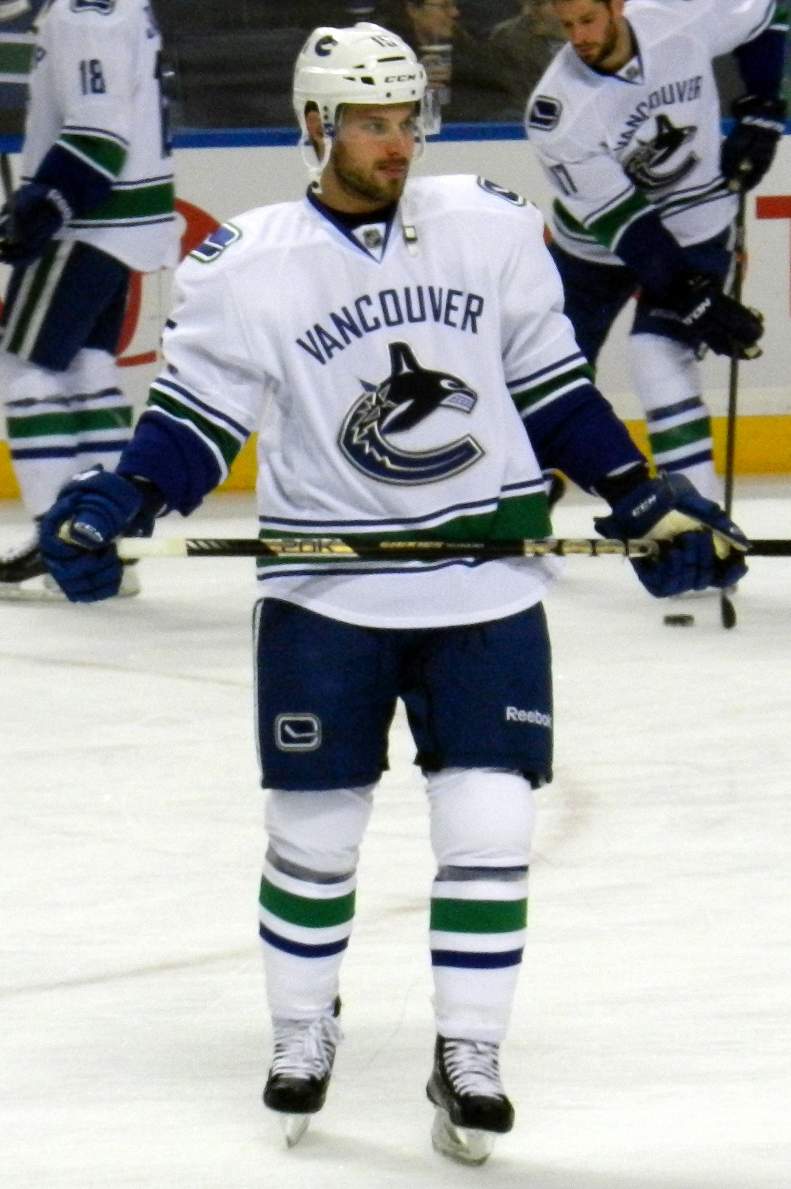 Brad Richardson with the NHL's Vancouver Canucks in a game against the Buffalo Sabres in the 2013-14 season